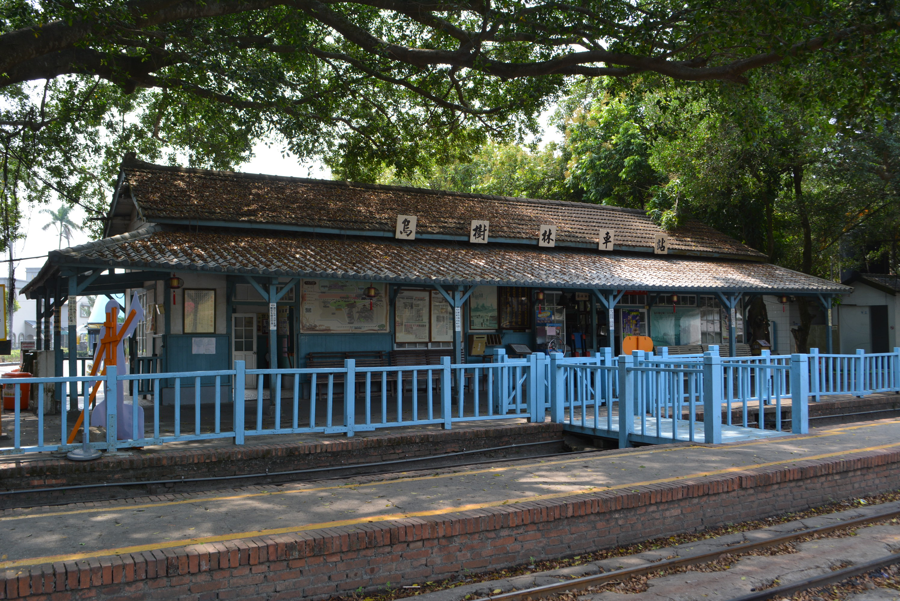 Wushulin Station building,Tainan Houbi,Taiwan